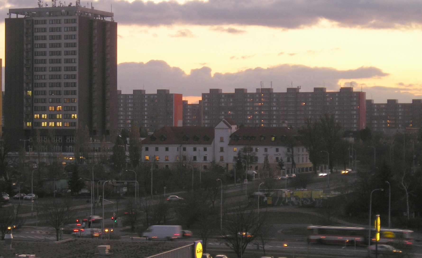 Building, where Czech businessman František Mrázek was murdered (white). Location: Prague, Czech Republic (see coordinates [2]).